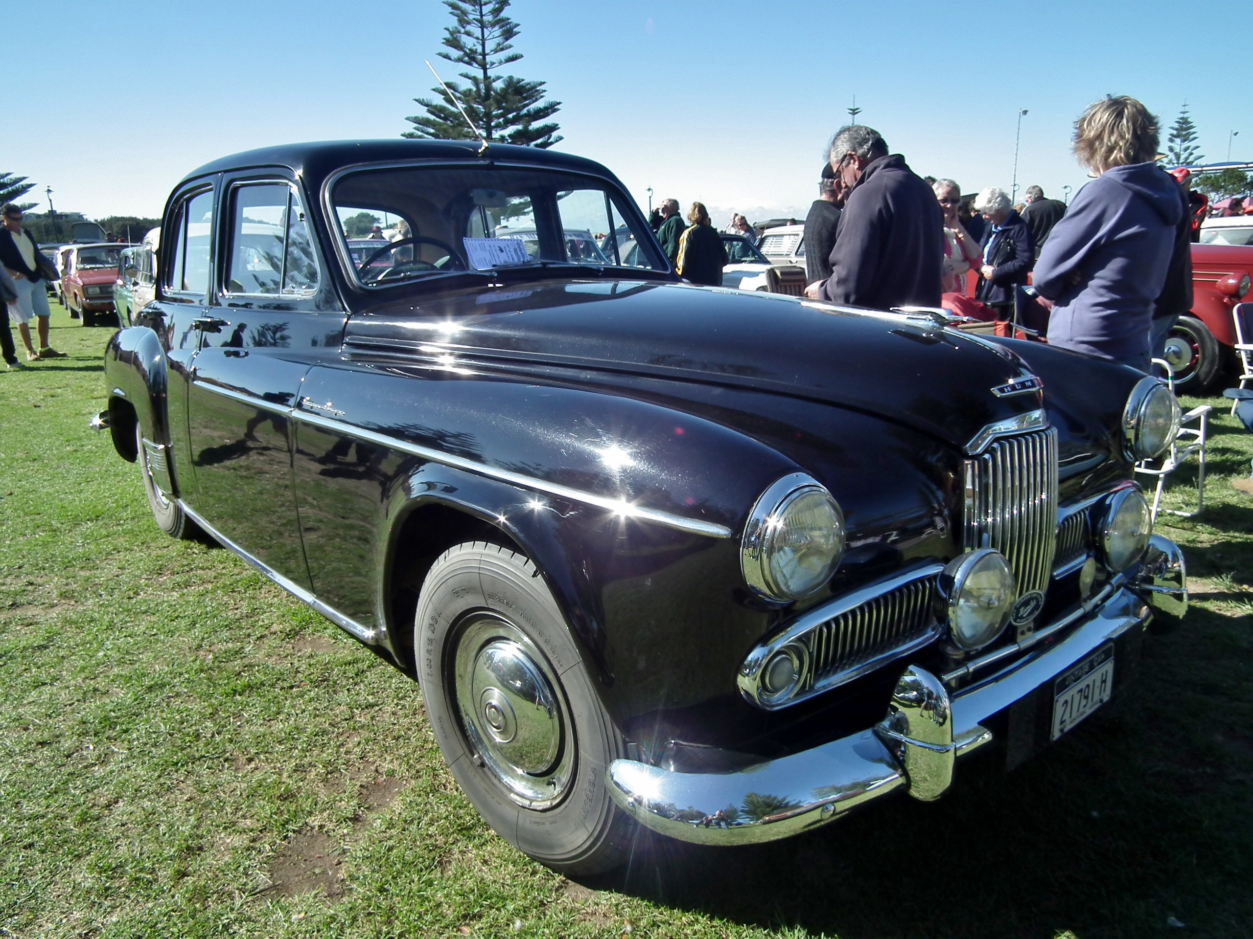 Humber Super Snipe Mk IV sedan 1955.Taken at the National Motoring Heritage Day display at Memorial Park, The Entrance, New South Wales.